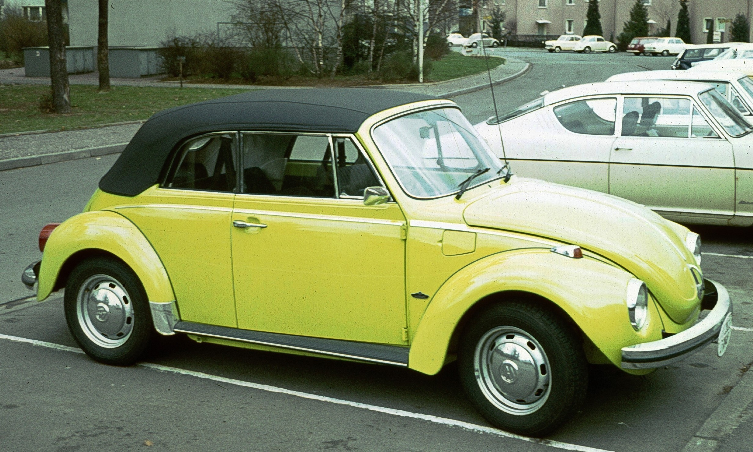 VW 1303 Cabrio Langen. mit Opel Kadett "Kiemencoupé" / with Opel Kadett "Gills coupé" im Hintergrund / in the background